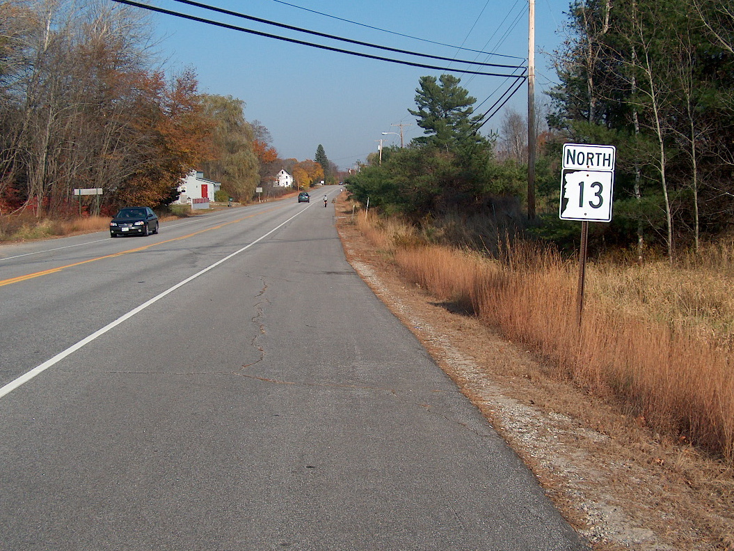 File:New Hampshire Route 13 northbound entering Concord. Photo by Ken Gallager, November 5, 2005.